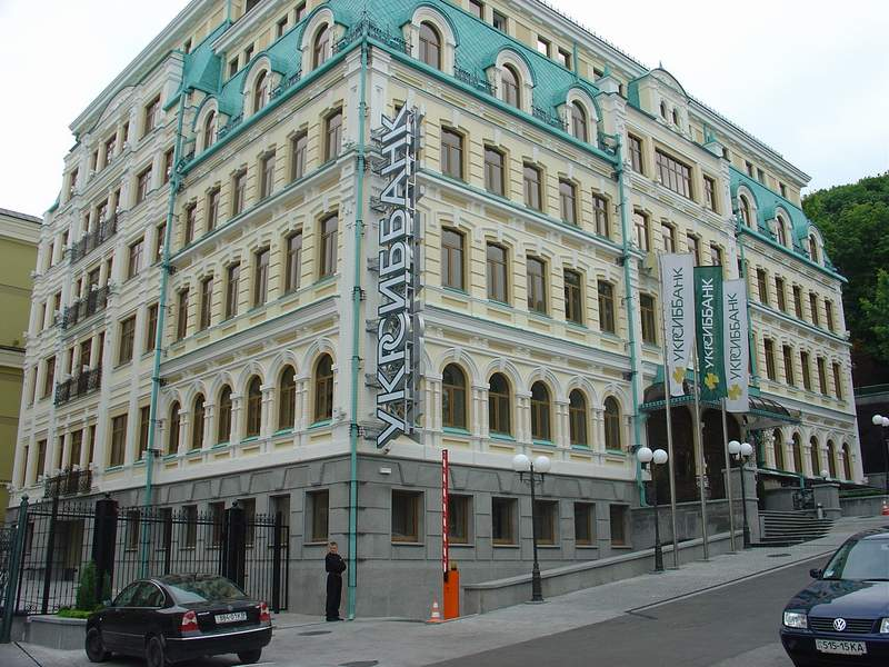 UkrSibBank Foto